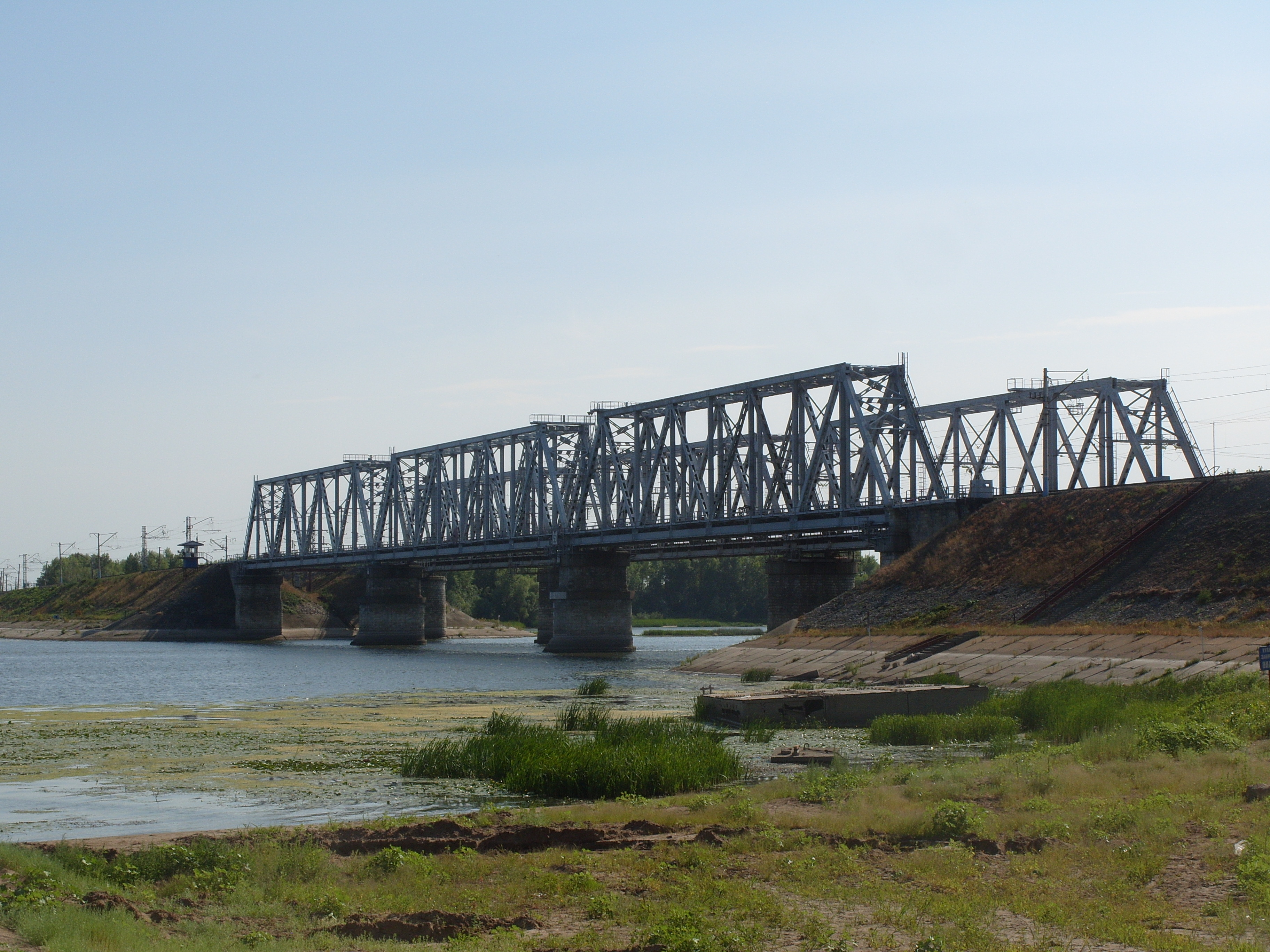 Venceka overpass in Samara